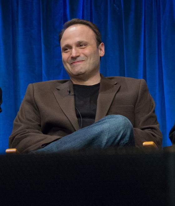 Steven Molaro at PaleyFest 2013